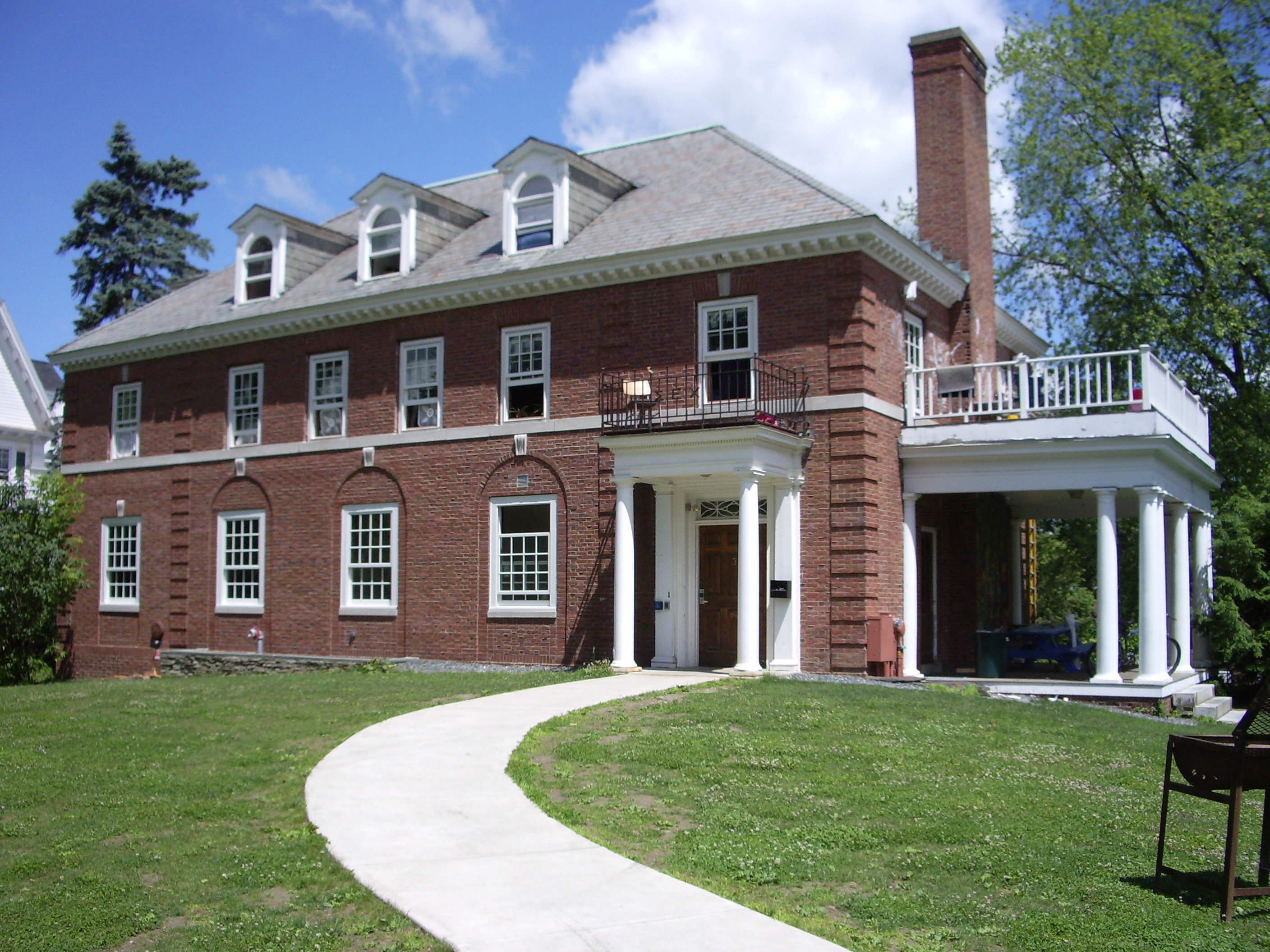 Photograph of The Tabard at the campus of Dartmouth College in Hanover, New Hampshire.